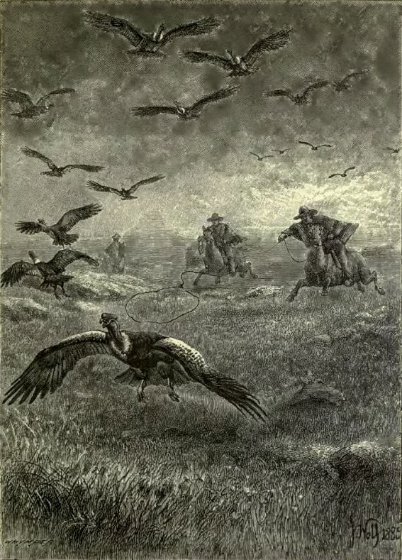 Condors being lassoed by Gauchos